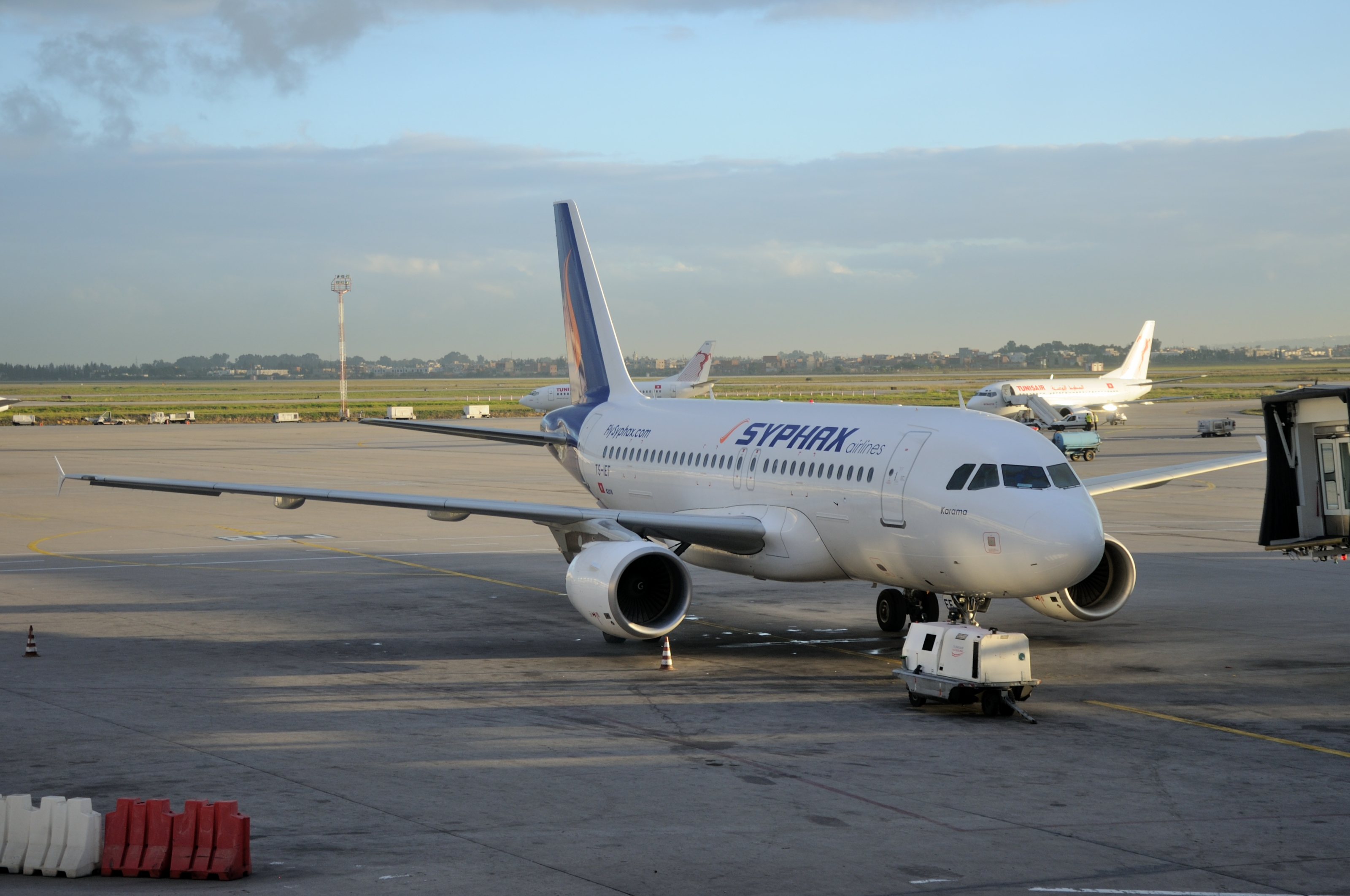 Tunisia, Tunis Carthage Airport